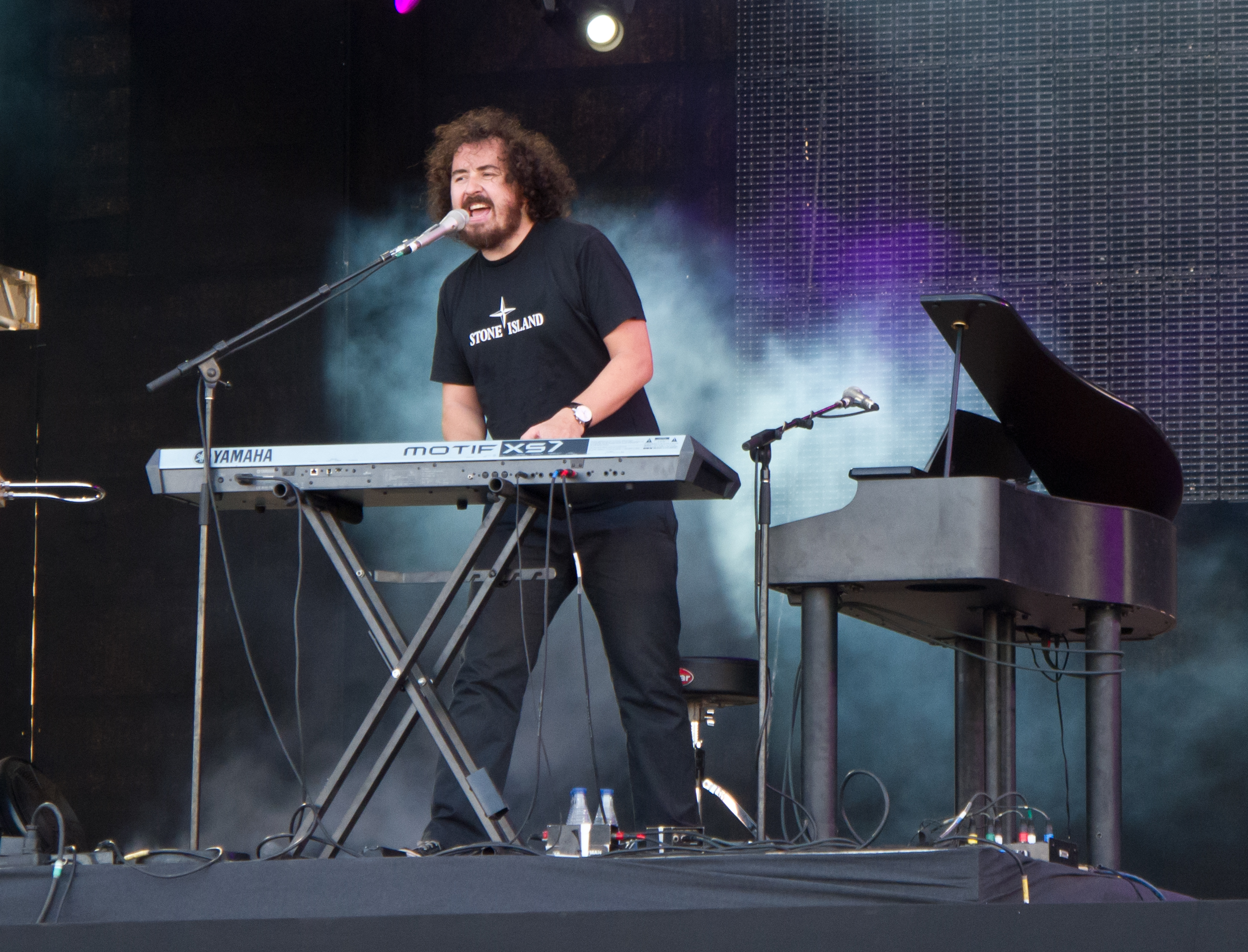 La oreja de Van Gogh in Rock in Rio Madrid 2012.